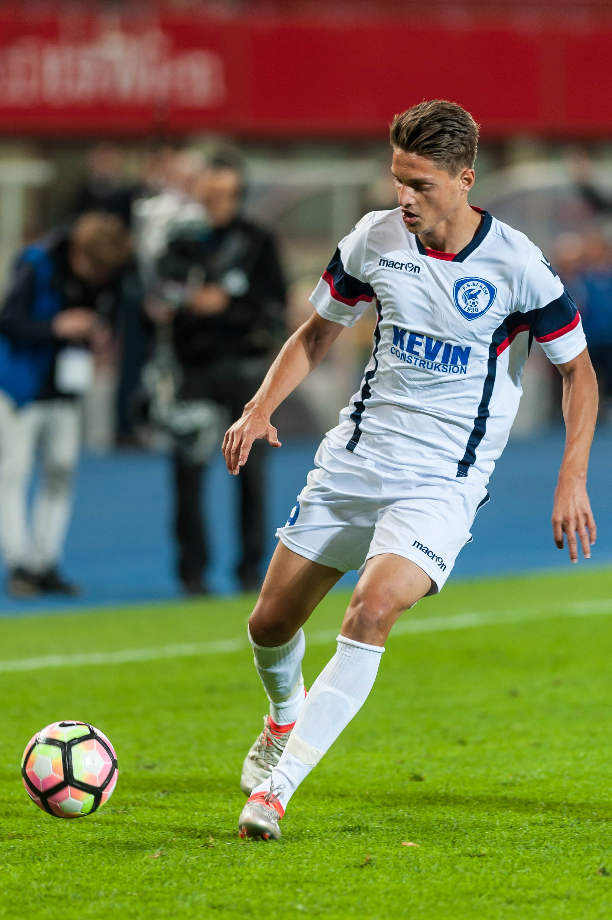 UEFA Europa League - FK Austria Wien vs FK Kukesi, 2016-07-14.